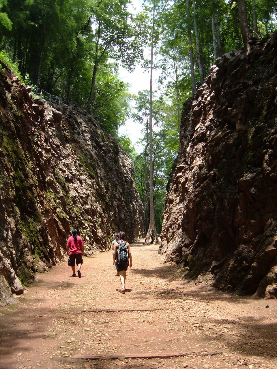 Portion of Hellfire Pass near its terminus in Kanchanaburi, Thailand. Following the pass from this point leads back to the Hellfire Pass Memorial Museum. Some of the original sleepers are still present.